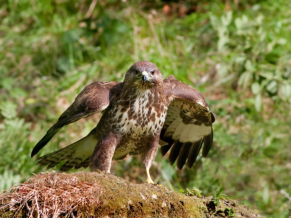 A Common Buzzard in Scotland.